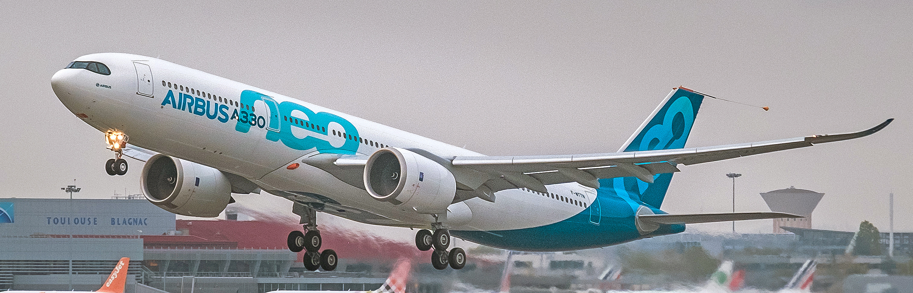 Airbus A330neo First Flight. 19 October 2017, Toulouse, France.